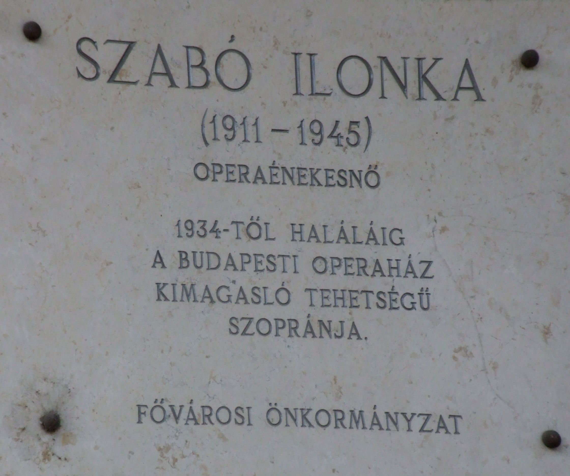 Ilonka Szabó commemorative plaque in Budapest District I, (on the corner of Szabó Ilonka Street – Ostrom Street).